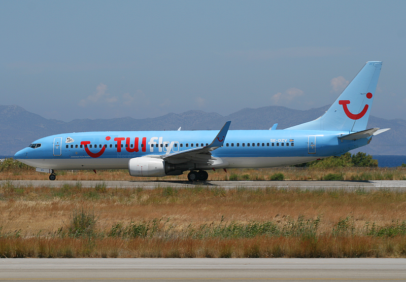 TuiFly Nordic at Rhodes Airport